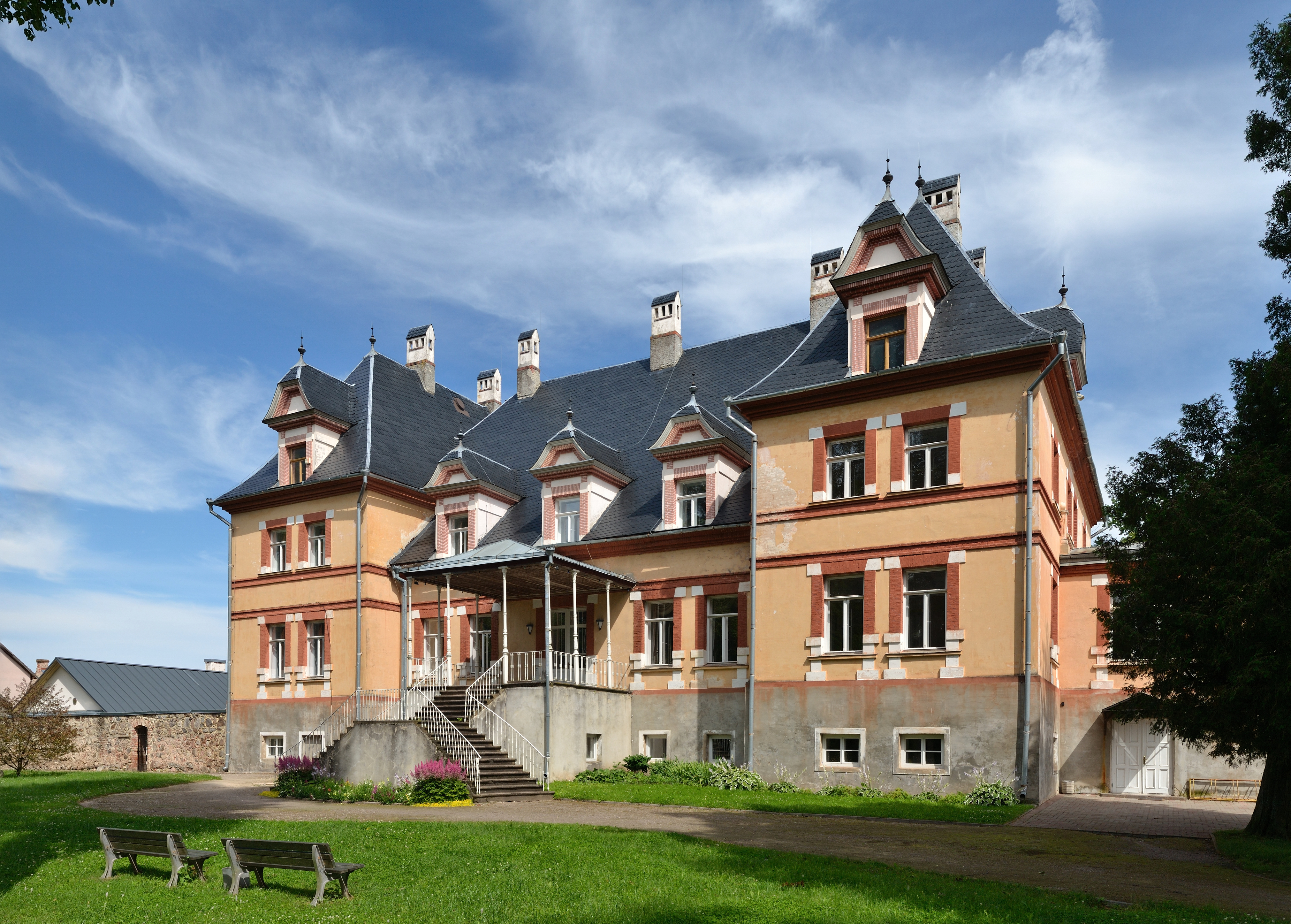 Mooste manor main building